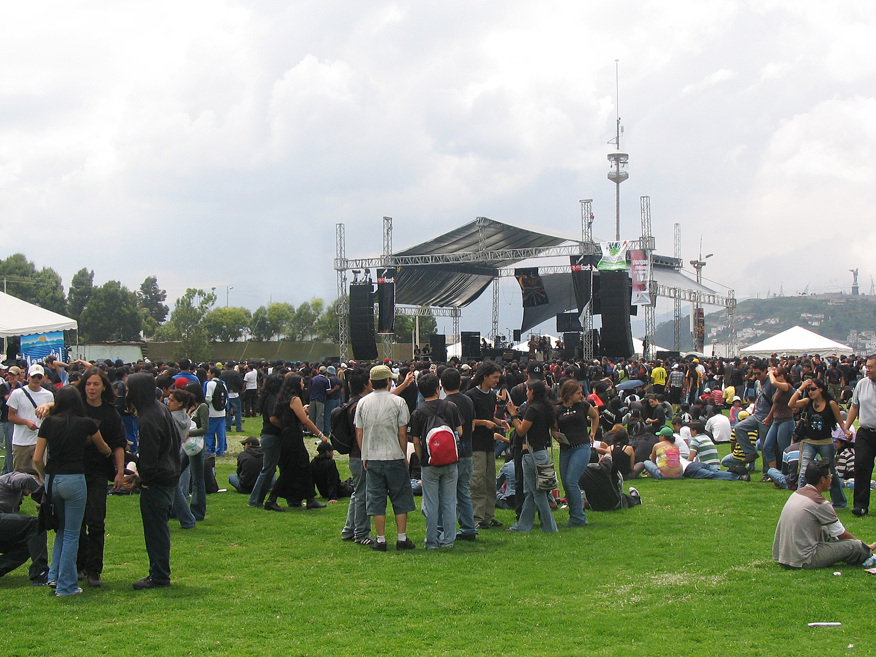 CPLPermission is granted to copy, distribute and/or modify this document under the terms of the Common Public License published by IBM; with no Invariant Sections, no Front-Cover Texts, and no Back-Cover Texts. A copy of the license is included in the section entitled "Text of the Common Public License." Quito Fest 2006 en el parque Itchimbía.